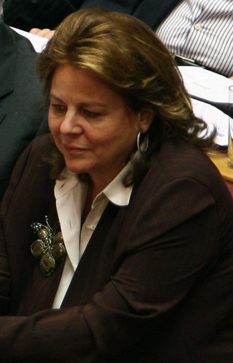 Greek economist and MP (PASOK) Louka Katseli.